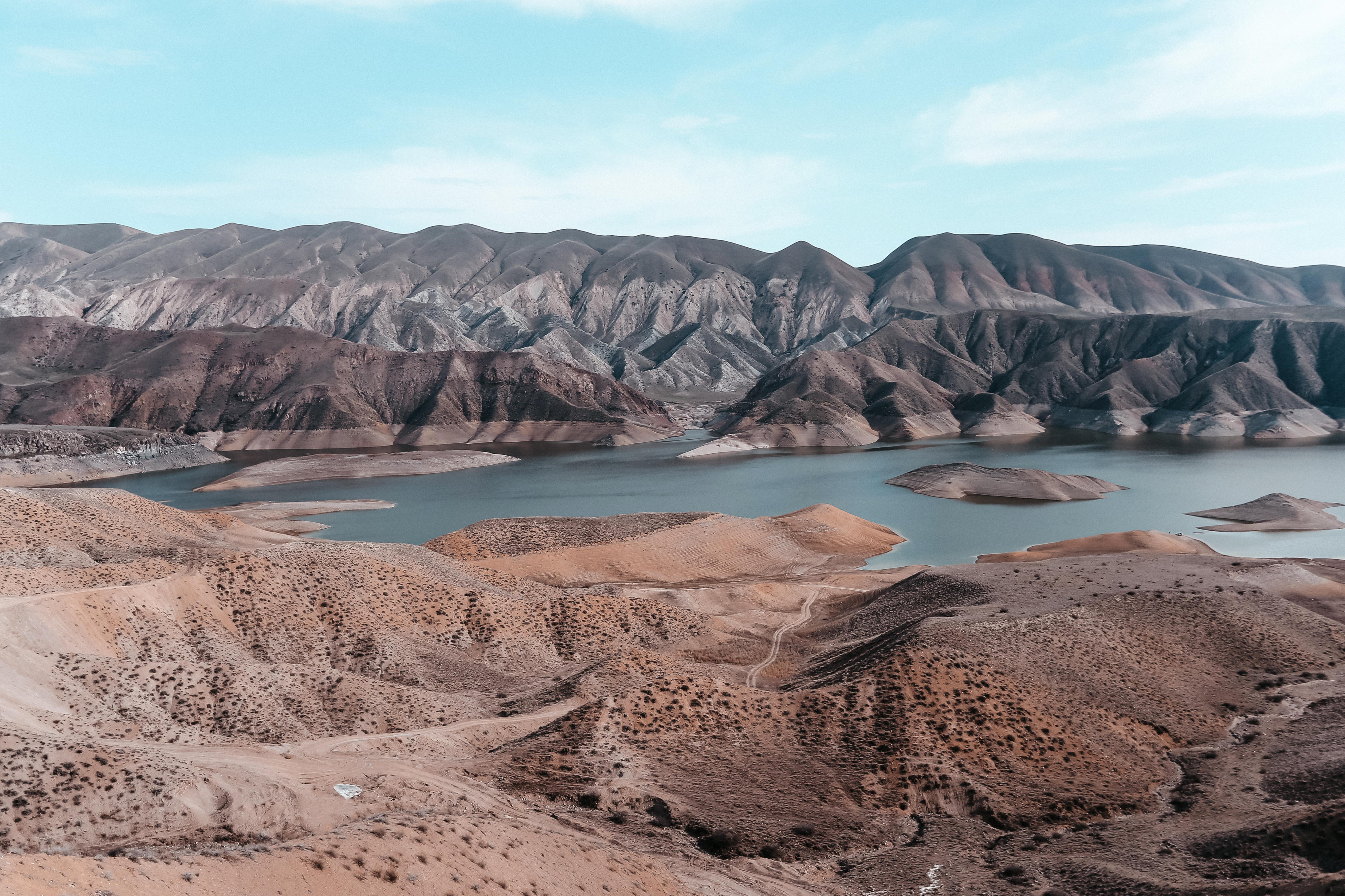 Azat Reservoir